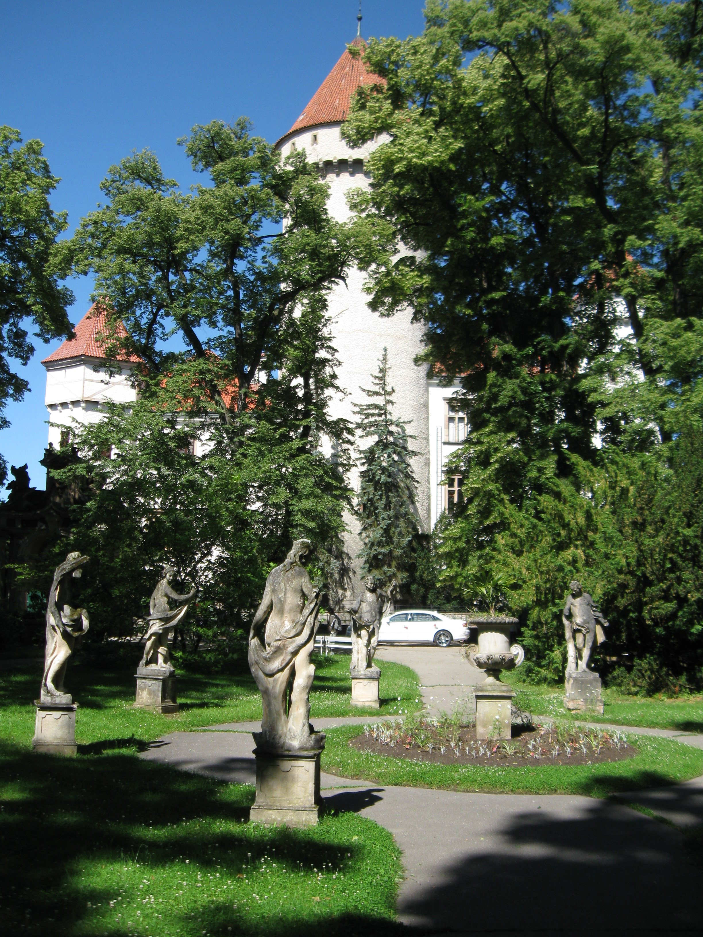 Konopiště Chateux, Czech Republic.